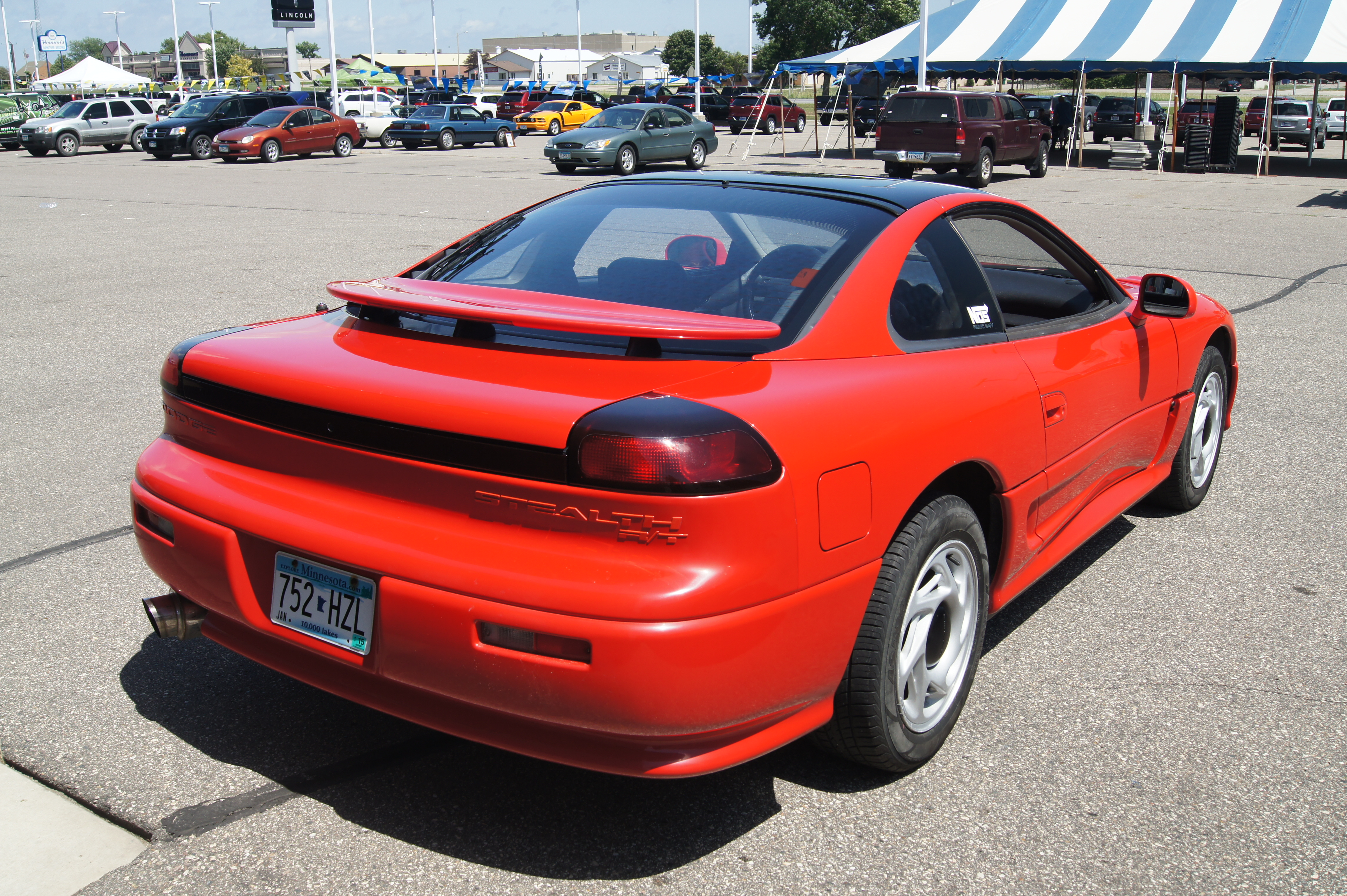 Ford Mustang 50th Anniversary Event Mills Ford Willmar Minnesota